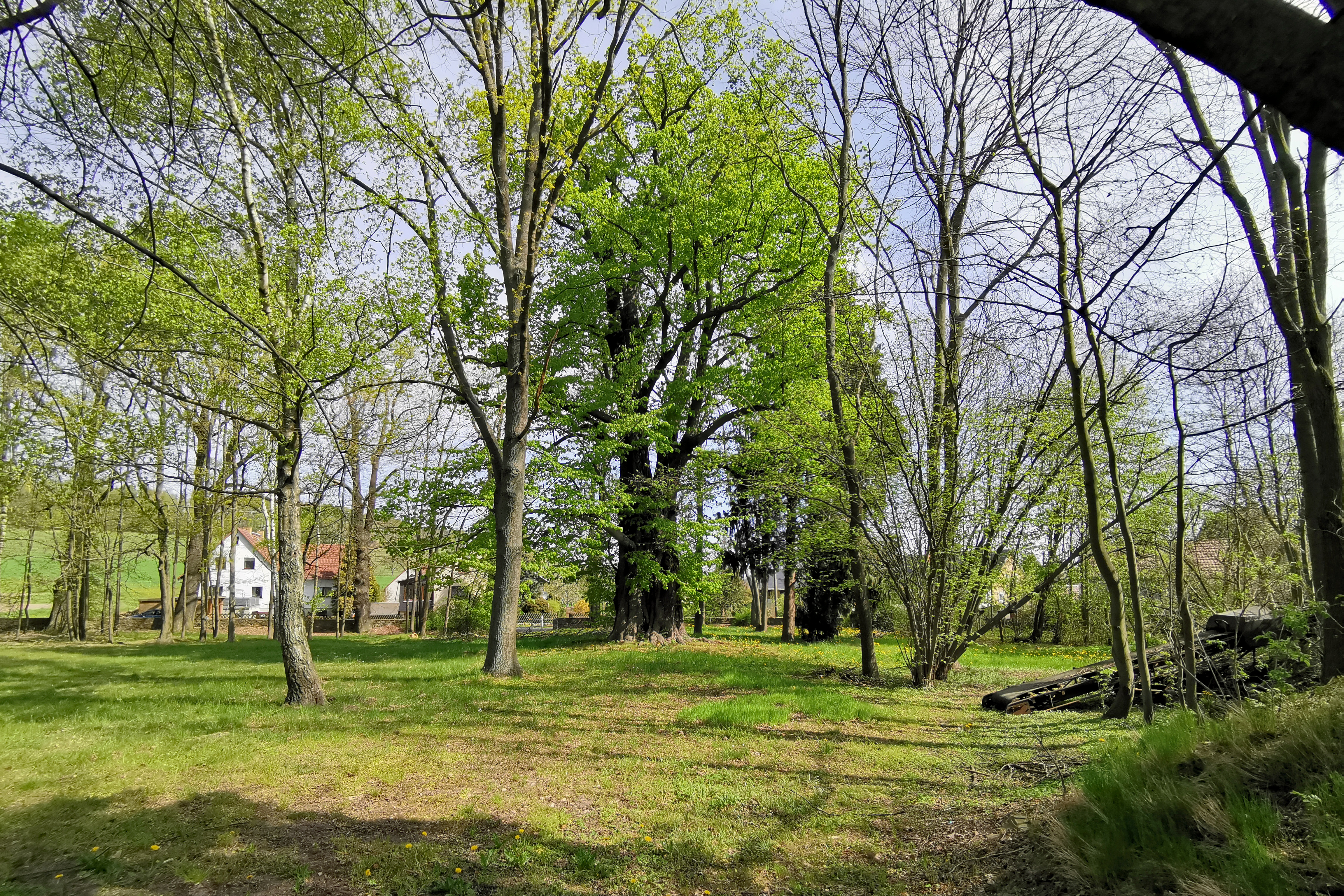 Hennersdorf (Kamenz, Saxony, Germany)